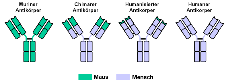 Combinations of murine and human antibodies